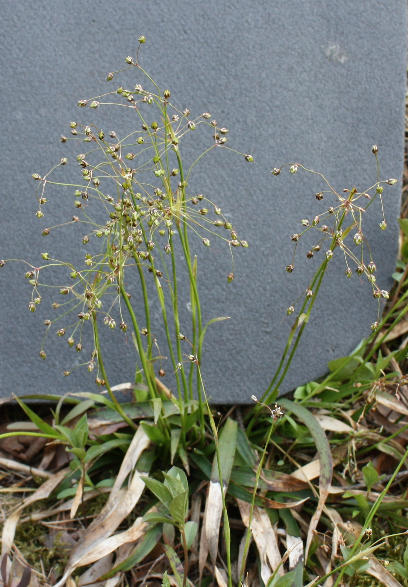 Hairy Wood-rush (Luzula pilosa) - Kerava, Finland